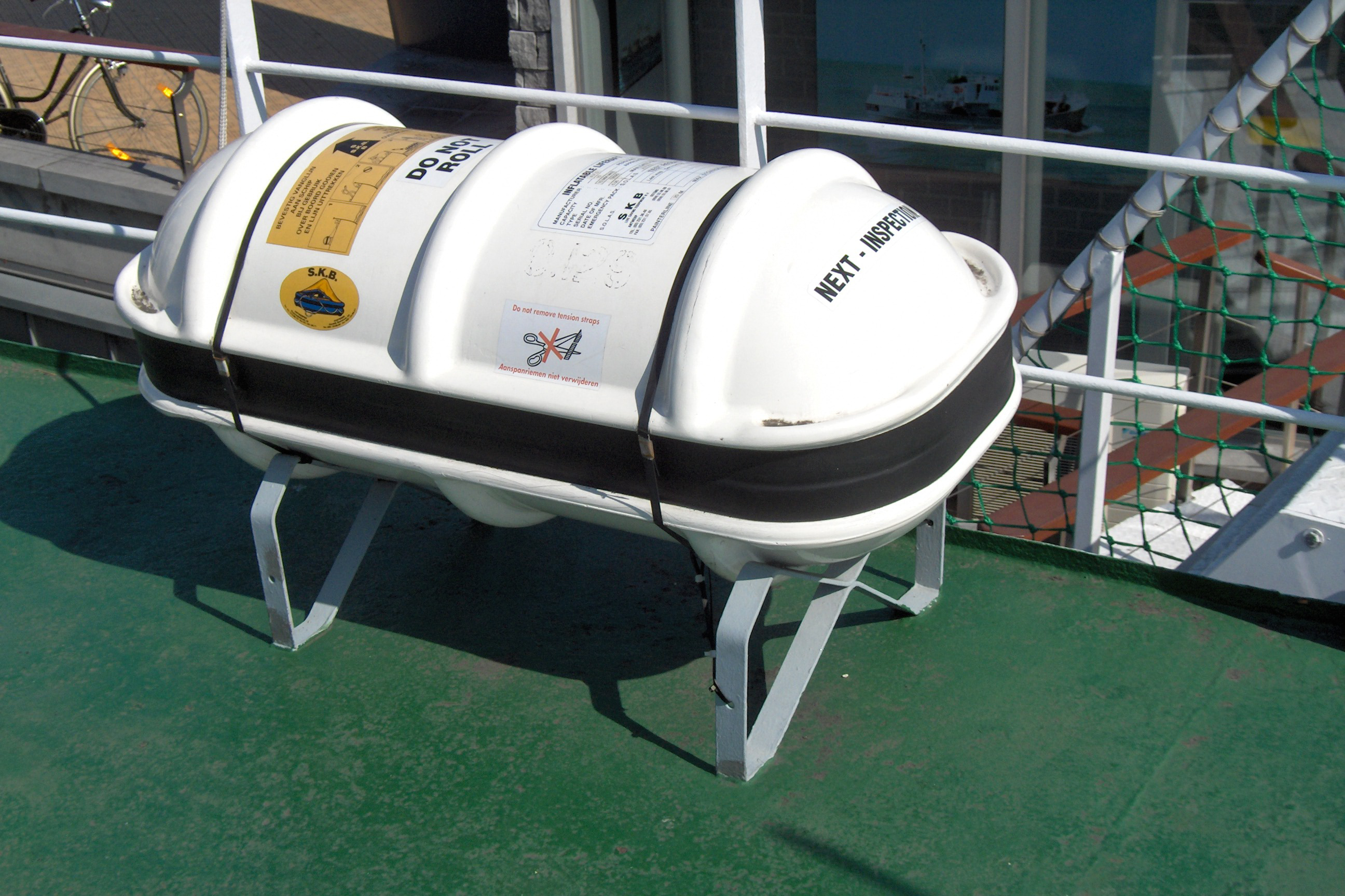 Inflatable lifeboat - the O129.Amandine is a former trawler fishing in Icelandic waters. It now has become a maritime museum in Oostende, Belgium